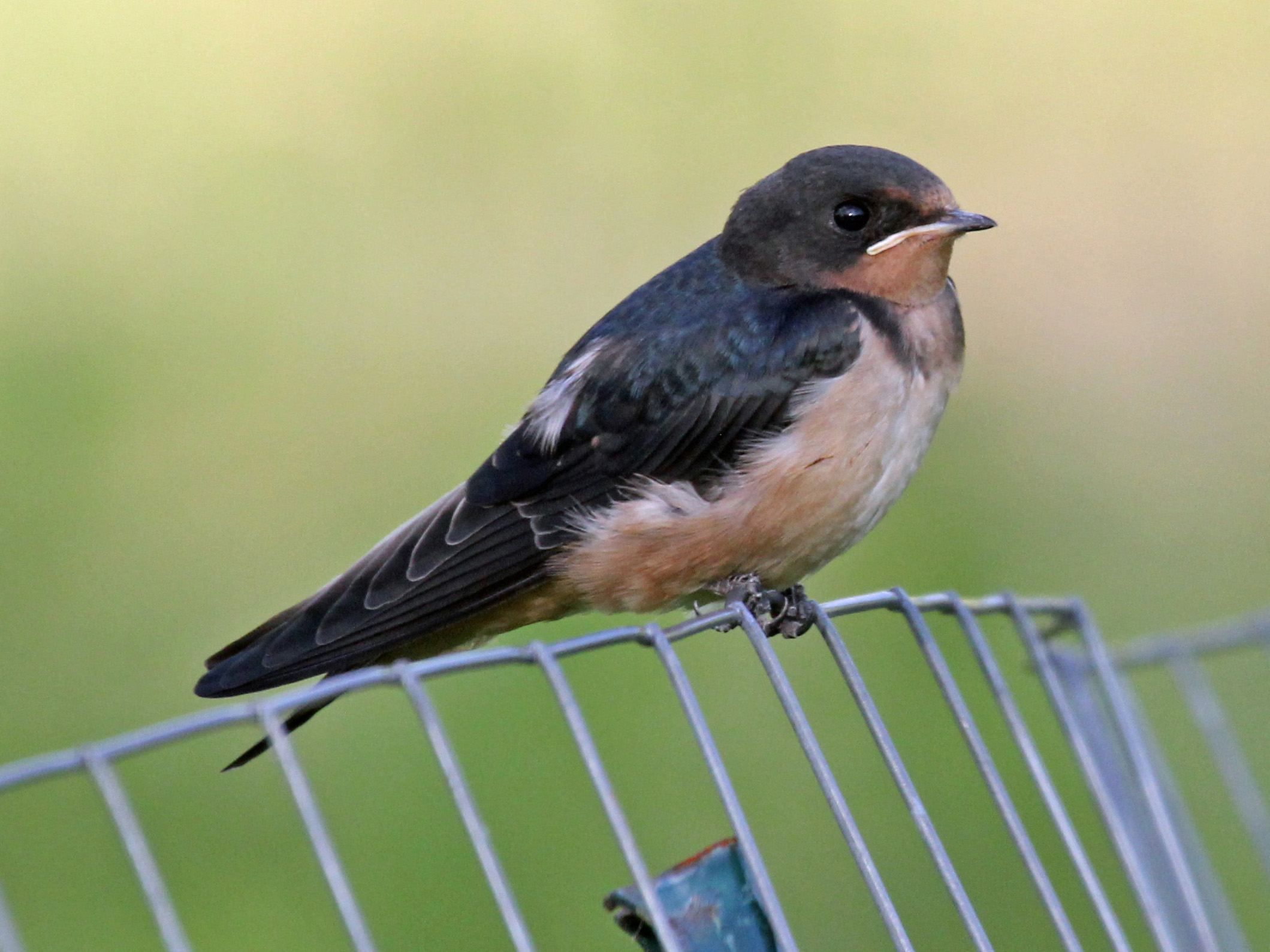 Juvenile Barn Swallow (Hirundo rustica) at Lake Shore Farm Inn - Northwood, New Hampshire, USA.